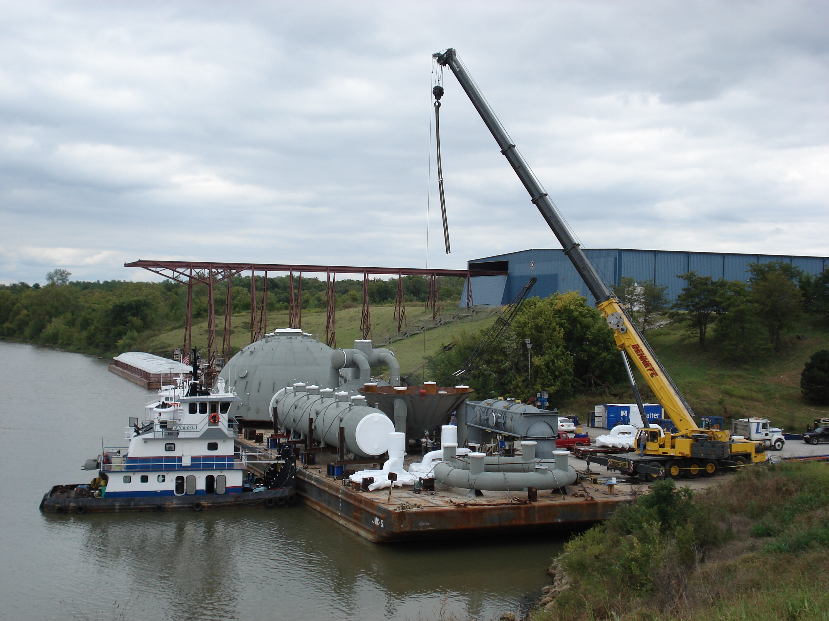 Project cargo being unloaded from a barge at the Port of Catoosa Low Water Wharf.